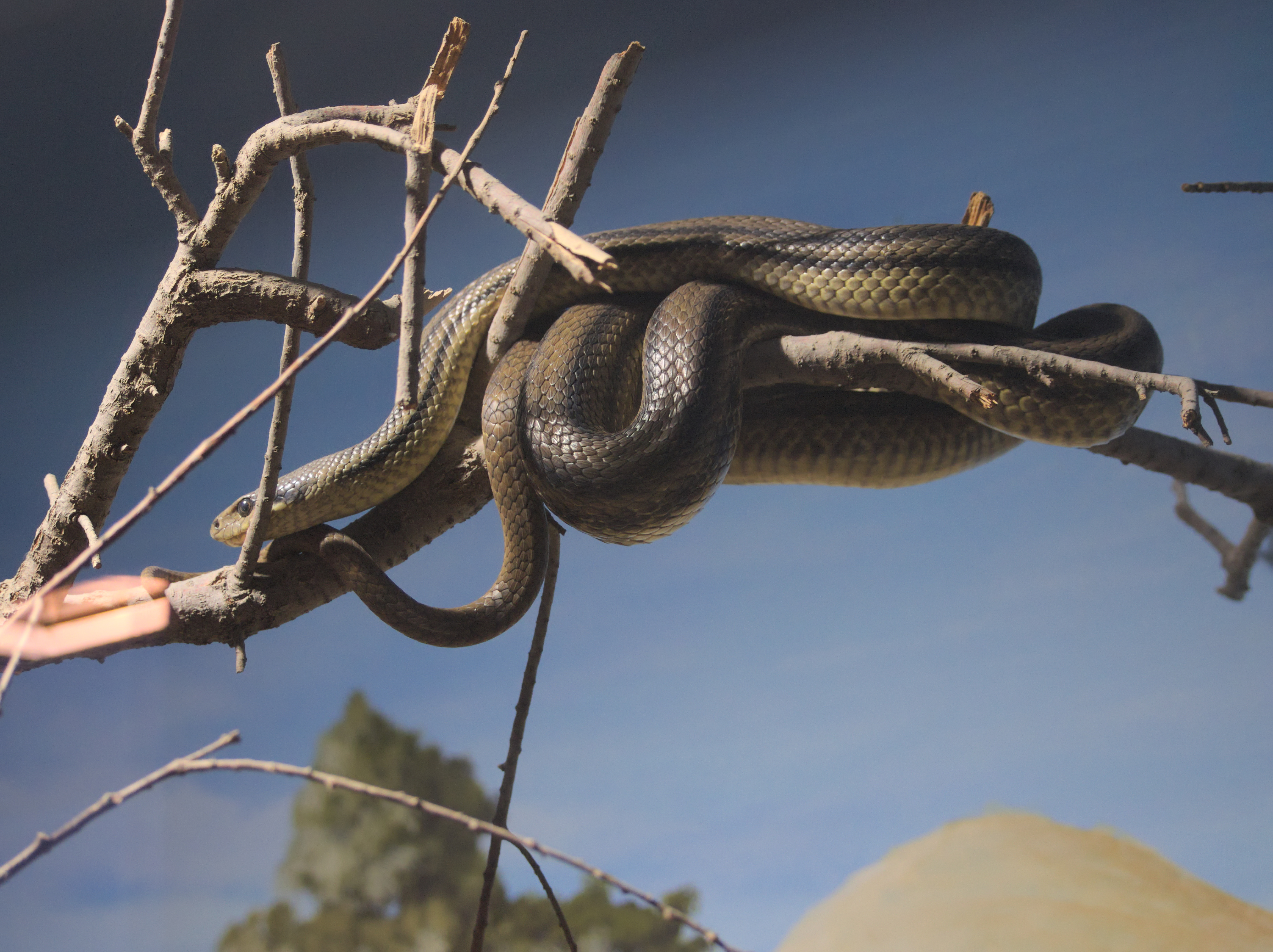 Elaphe quadrivirgata, part of the living museum exhibition of the Natural History Museum of Crete.